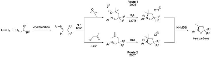 Scheme representing known preparations of CAACs